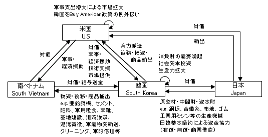 Figure of Miracle on the Han River (ja:「漢江の奇跡」図)